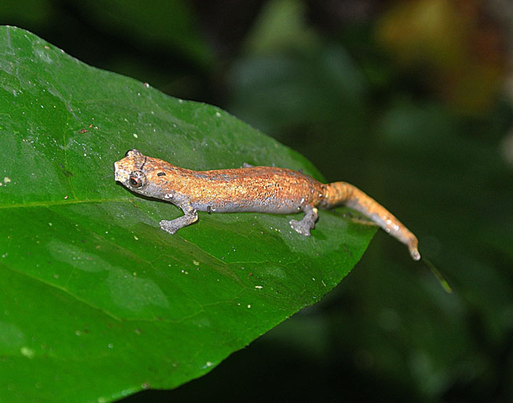 As the name would suggest, this climbing salamander is found in the upper (western) Amazon basin, where it is known as Nauta Salamander. Sacha Lodge Reserve, Ecuador.